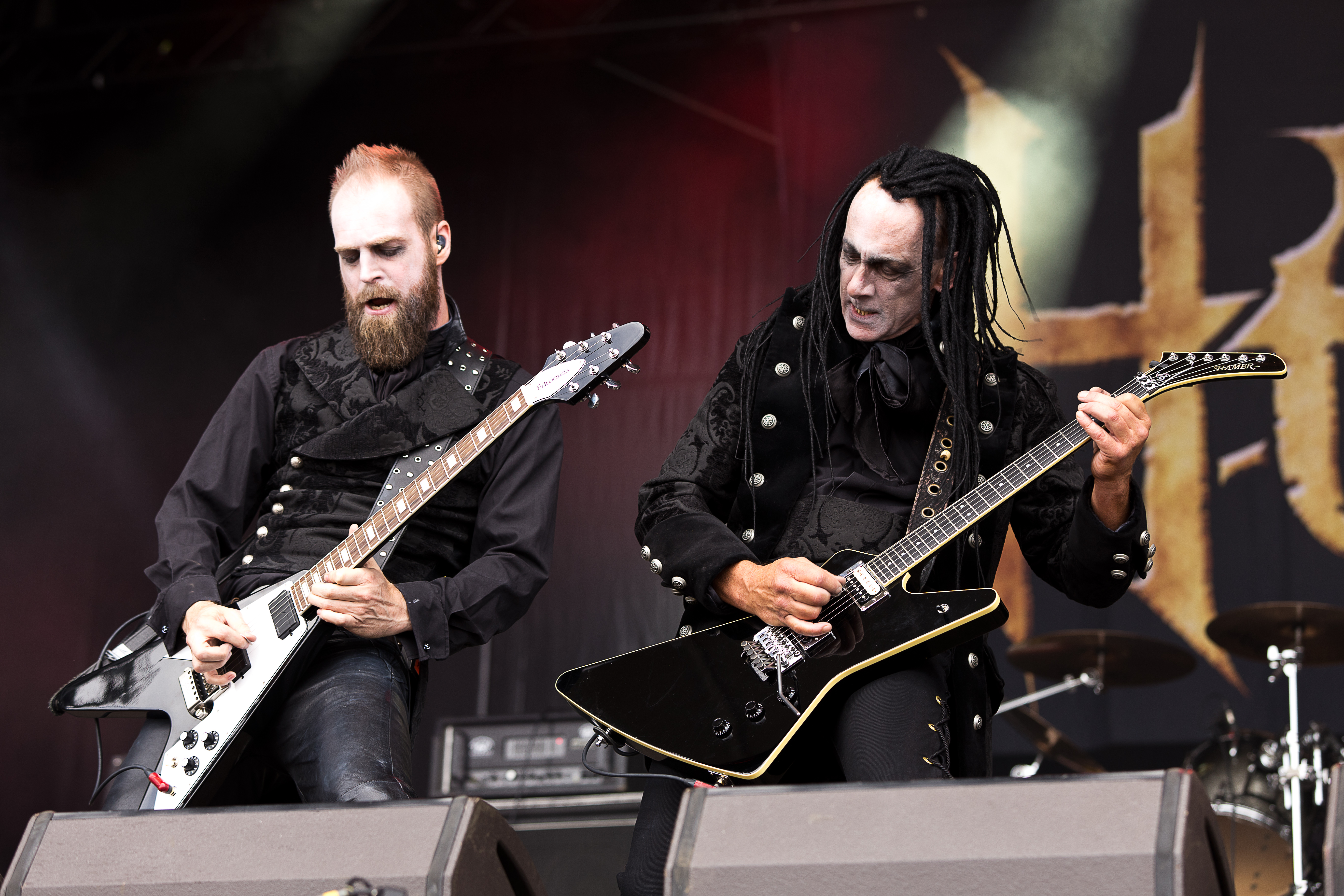 The British heavy metal band Hell at the Rockharz Open Air 2015 in Ballenstedt/Germany.